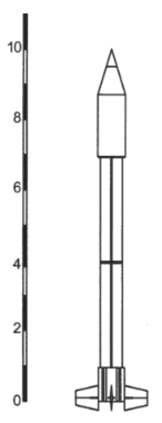 OTRAG rocket.